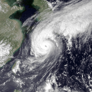 Typhoon Kinna on September 13, 1991. At the time Kinna had winds of 86.6 knts (99.7 mph, 160.6 kph), 1-min sustained and a pressure of 955 mbar. Kinna was about 75 miles away from land. This image was taken by the GMS-4 Satellite.